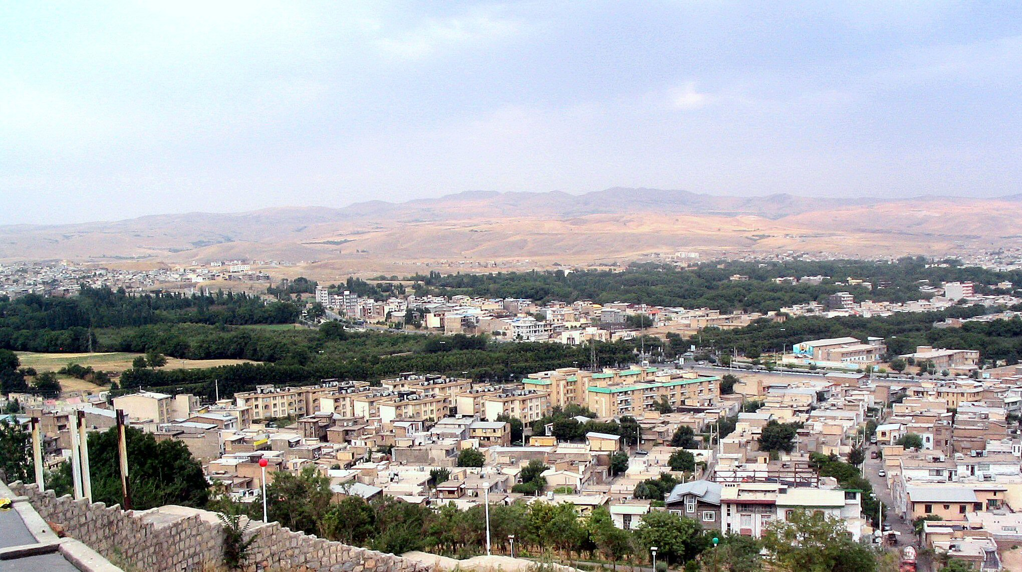 Outlook of Borujerd City toward north